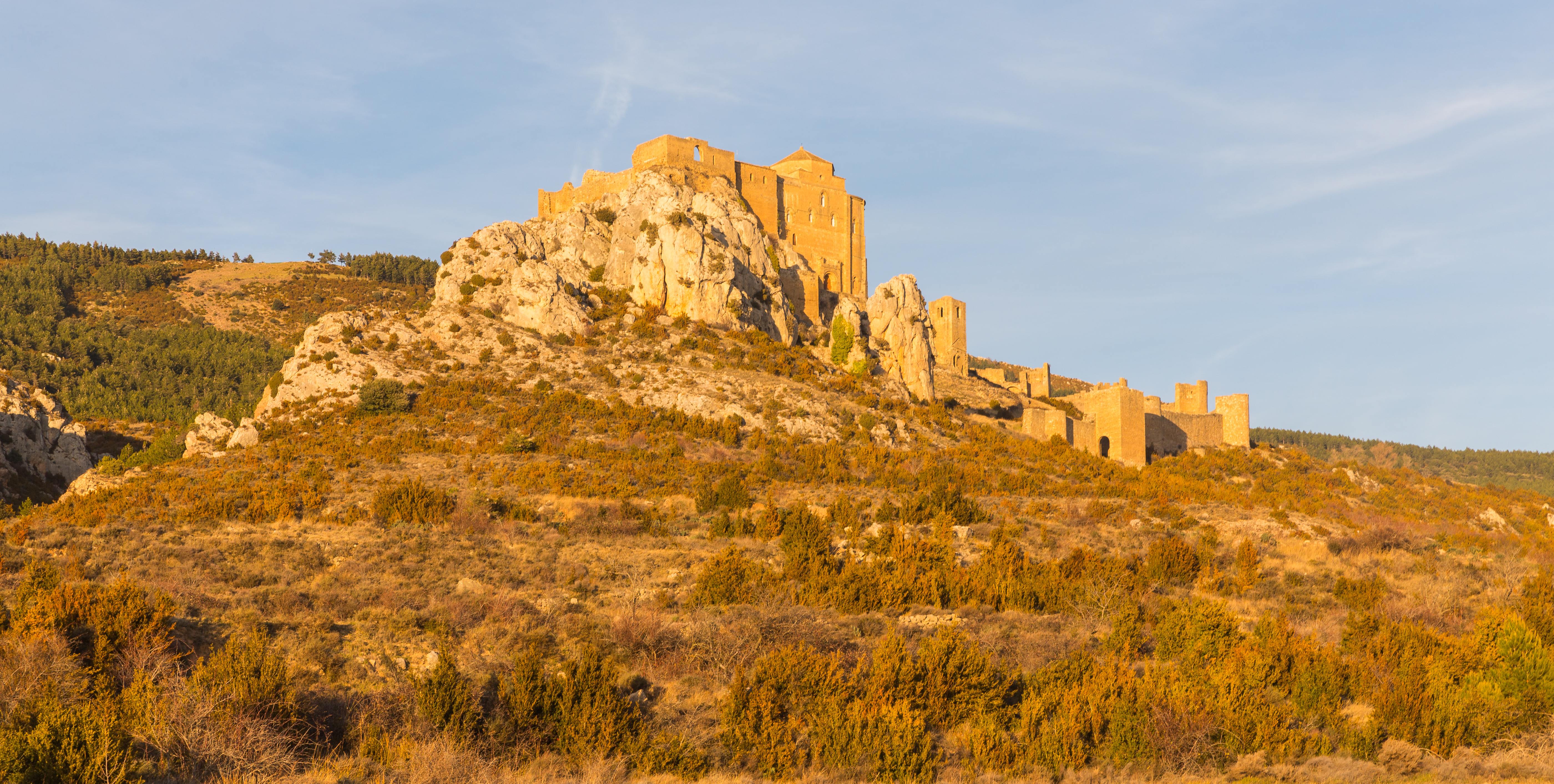 Loarre Castle, Loarre, Huesca, Spain